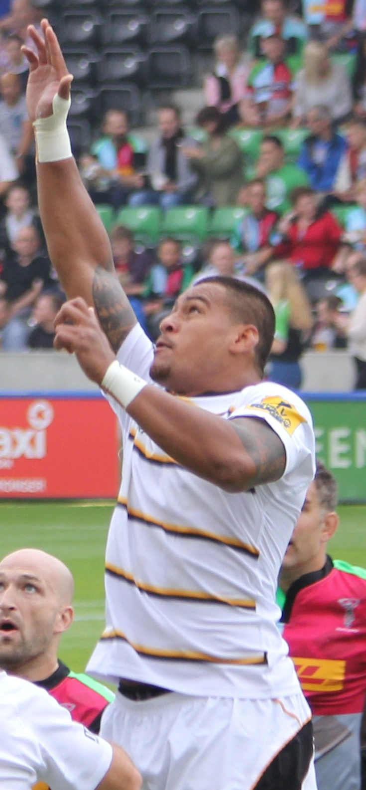 2014-15 English Premiership Harlequins vs Wasps, 20 September 2014, Twickenham Stoop.